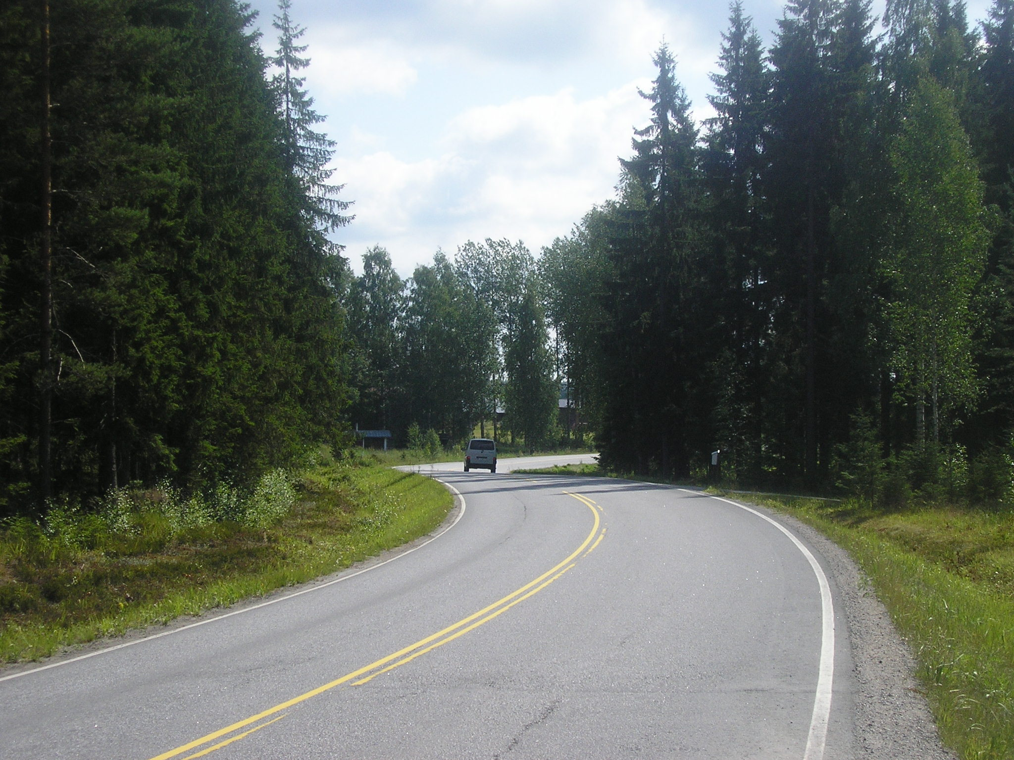 Connecting road 7054 in Alavus, Finland towards Tuuri.